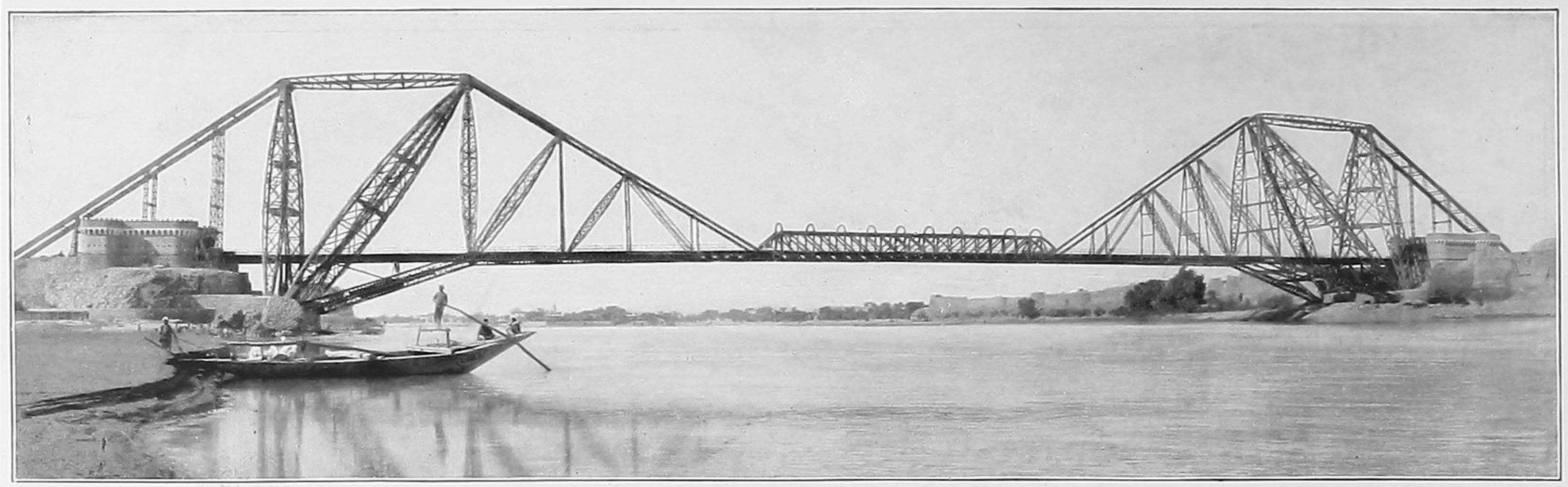 THE LANSDOWNE BRIDGE OVER THE INDUS- The beautiful cantilever railway bridge over the Indus at Sukkur is a testimony to the skill of our Indian engineers, and an important link in the line of our frontier communications. It is named after the Marquess of Lansdowne. who was Viceroy of India from 1888 to 1893.